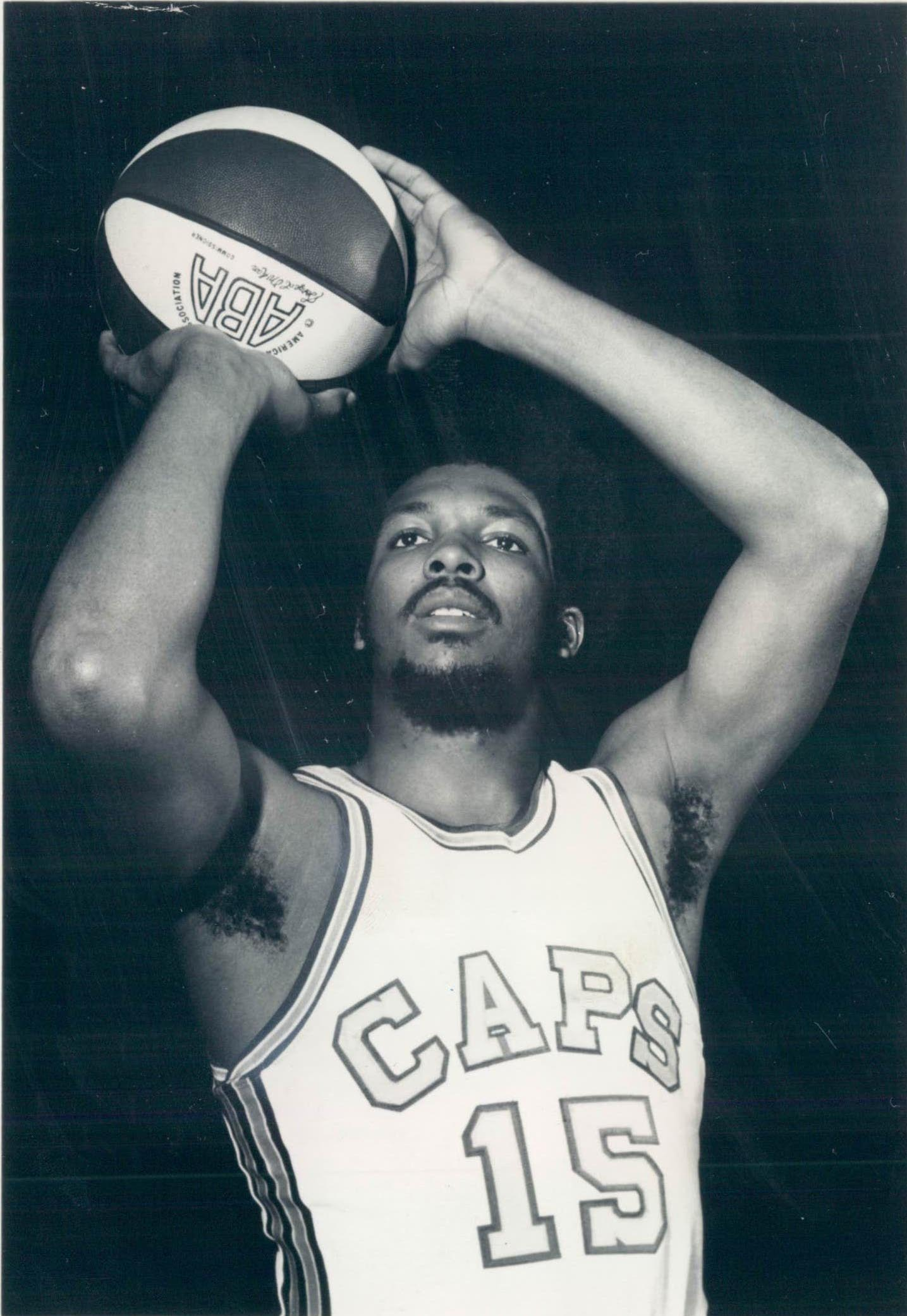 Professional basketball player Warren Jabali